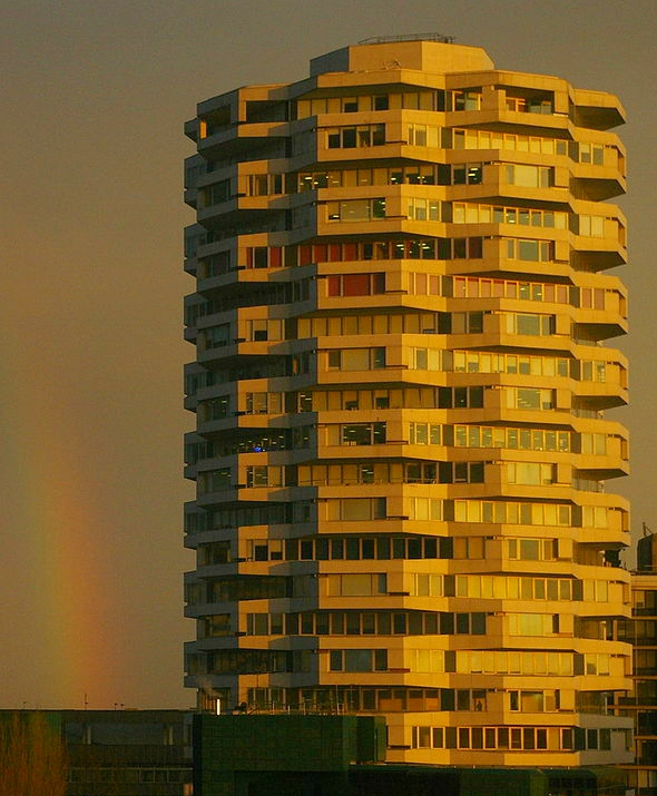 Rainbow and office block, Croydon